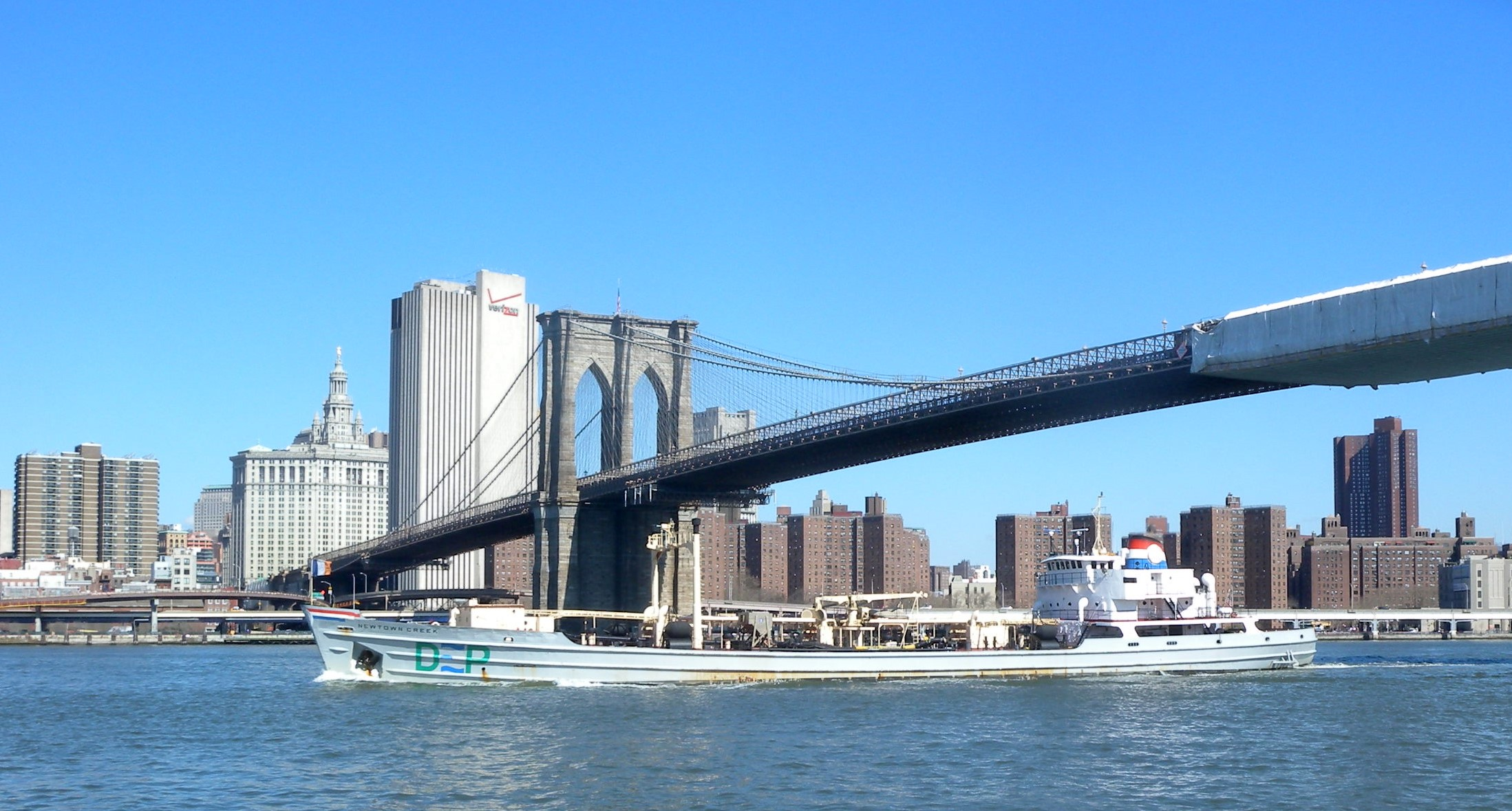 Looking north from Pier 1 on a sunny morning as a sludge boat passes under the Brooklyn Bridge.